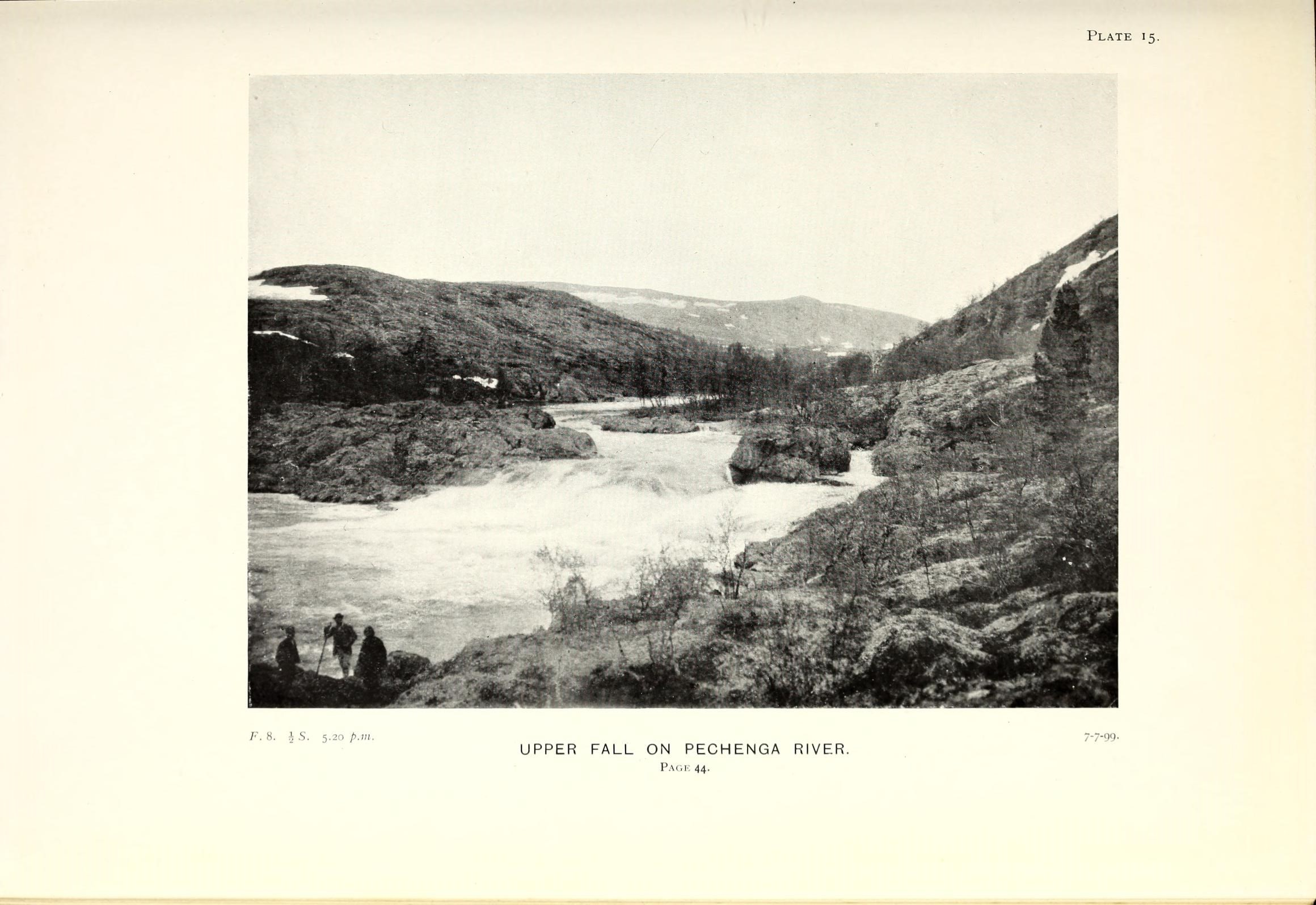 Three summers among the birds of Russian Lapland /